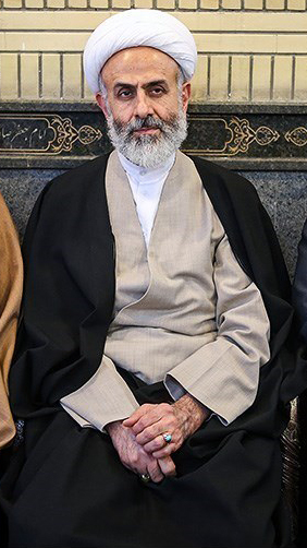 Ali Mohammadi Sirat & Sardar Hamidreza Moghaddamfar & Seyyed Hashem Hosseini Boushehri in Memorial Ceremony of Sardar Hossein Salami's Mother